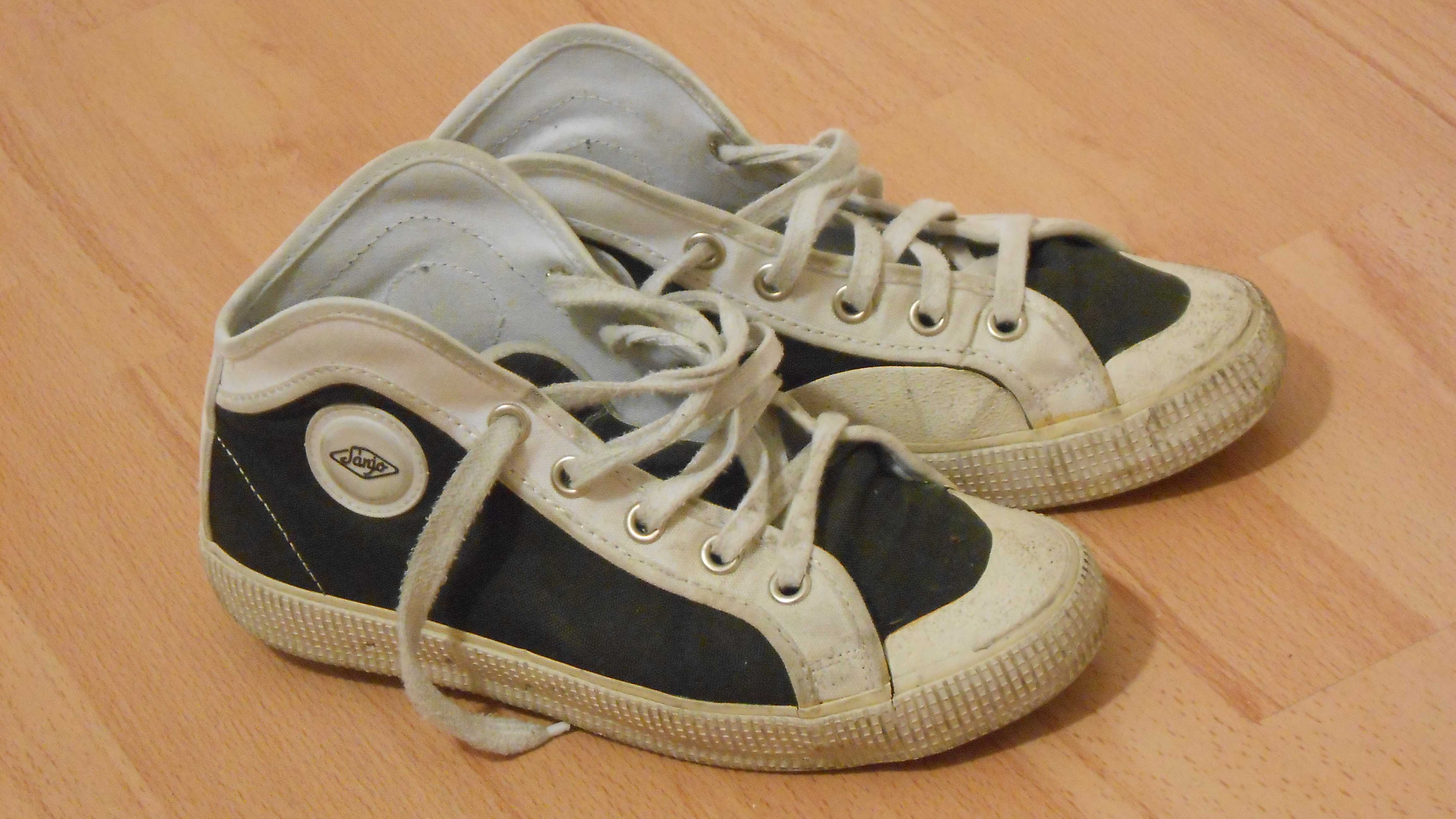 A pair of worn-out portuguese Sanjo sport shoes, in its classic black and white K-100 version.